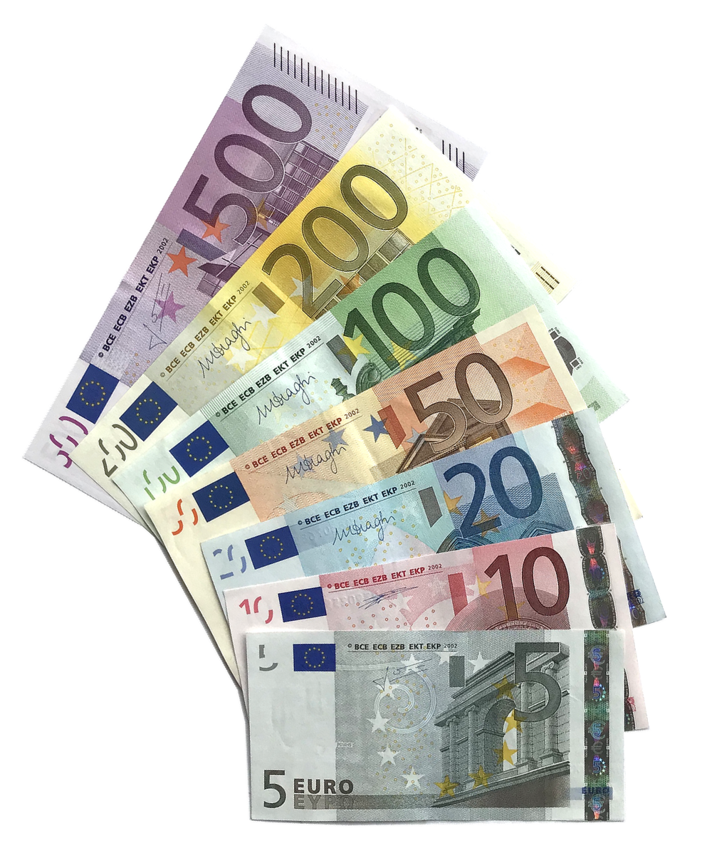 All the denominations of the First series of the euro, containing 500, 200, 100, 50, 20, 10 and 5 euro banknotes.